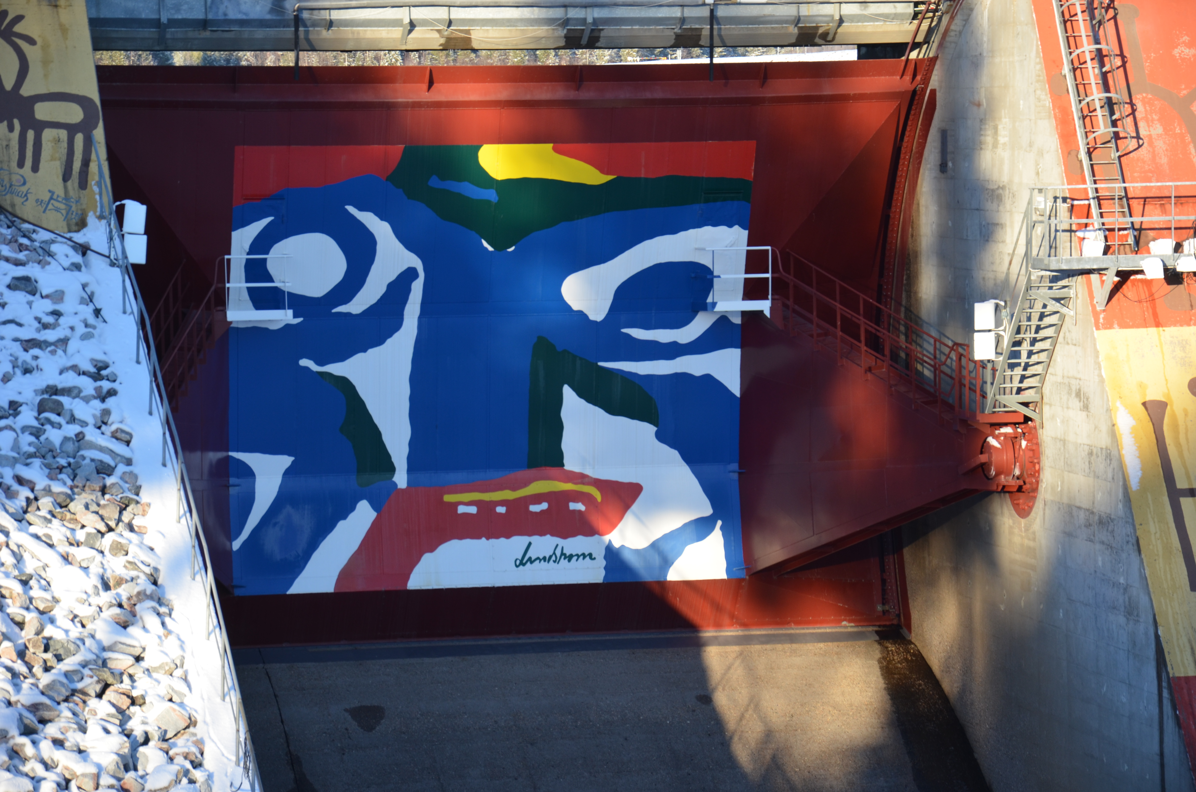 Bengt Lindströms målning på södra utskovsluckan, Akkats